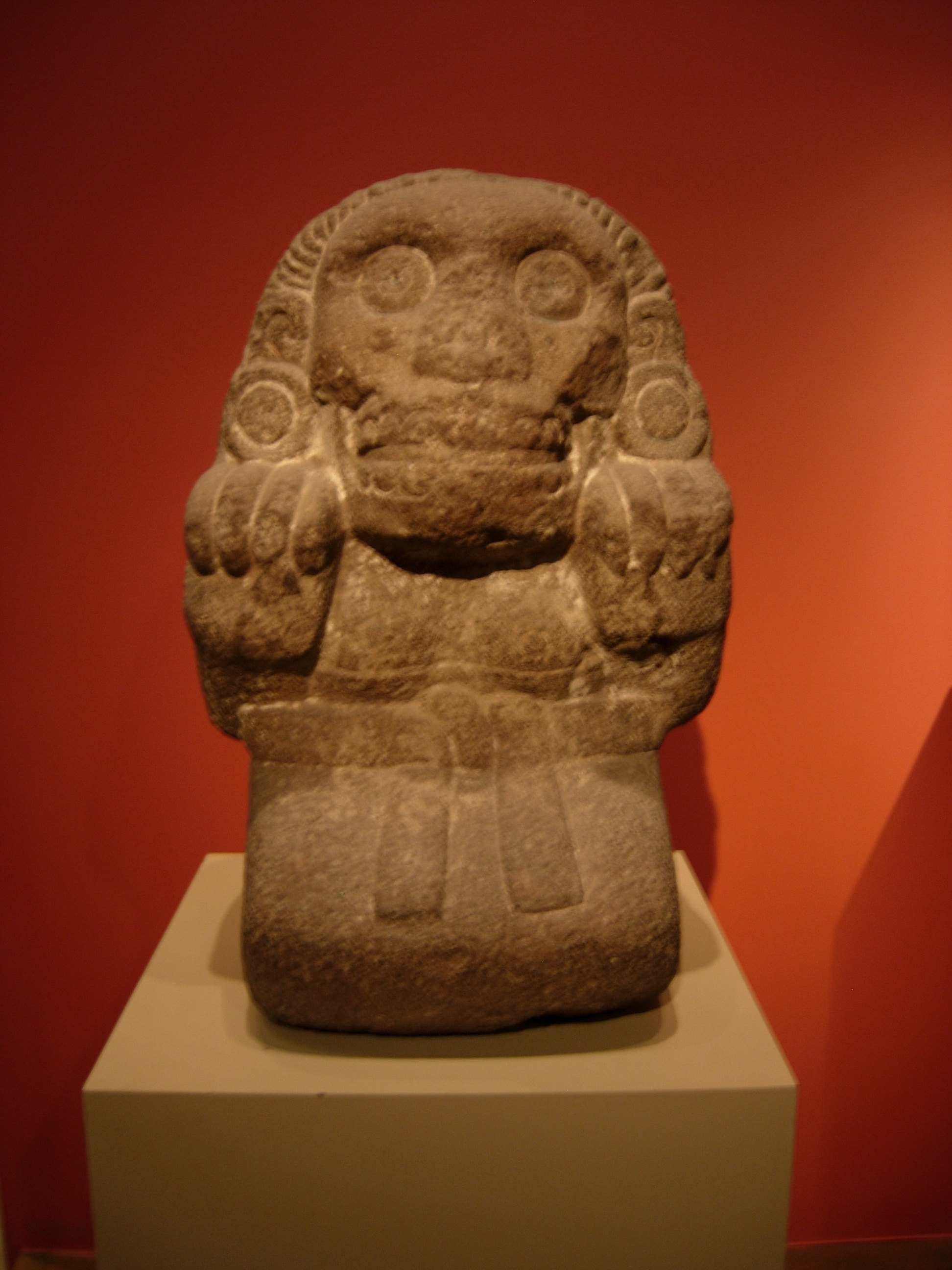 A figurine of Cihuateotl, an Aztec deity. Made of Andesite between 1300-1527, 74*45*42 cm, British Museum, London